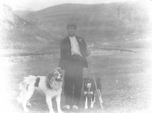 Oldest photo of Can de Chira